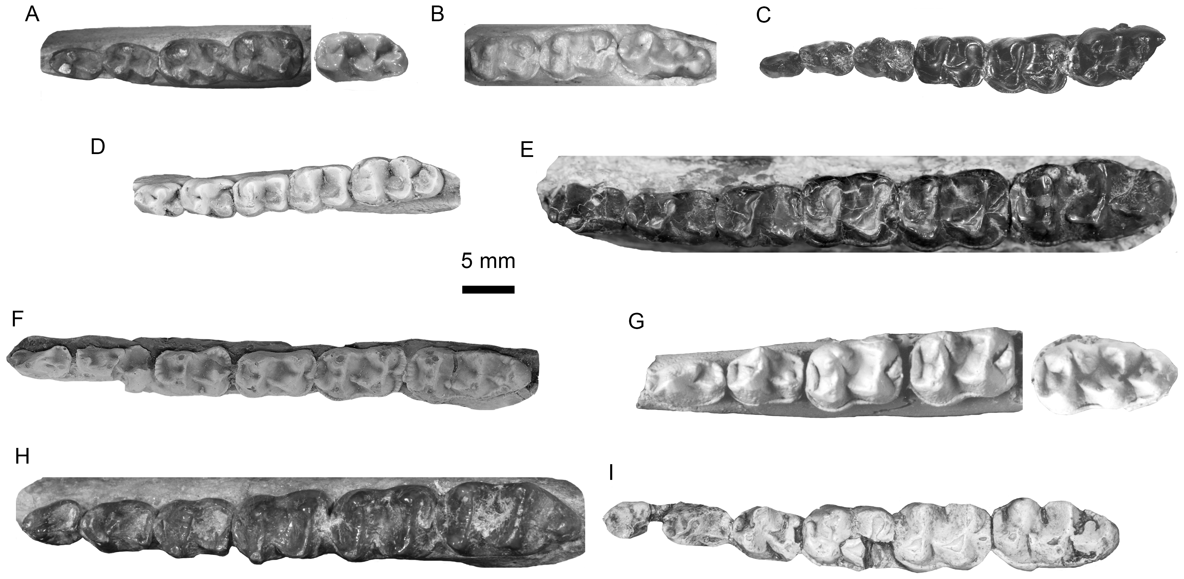 Lower dentitions of basal tapiromorphs. A, Cymbalophus cuniculus (casts of IRSNB M 167 and BMNH M 29710, p3-m2 from AMNH FM 13759, m3 from AMNH FM 119191 and reversed); B, Erihippus tingae (cast of IVPP V 5789.1, AMNH FM 144353); C, Meridiolophus expansus gen. et sp. nov. (IVPP V 20125); D, Gandheralophus minor (GSP–UM 6770, reversed); E, Homogalax protapirinus (AMNH FM 15371); F, Karagalax mamikhelensis (H–GSP 5139, reversed); G, Chowliia laoshanensis (p3-m2 from IVPP V 10740.7, m3 from IVPP V 10740.11 and reversed); H, Heptodon calciculus (AMNH FM 294, reversed); I, Cardiolophus radinskyi (UM 78915, p4-m3 reversed).